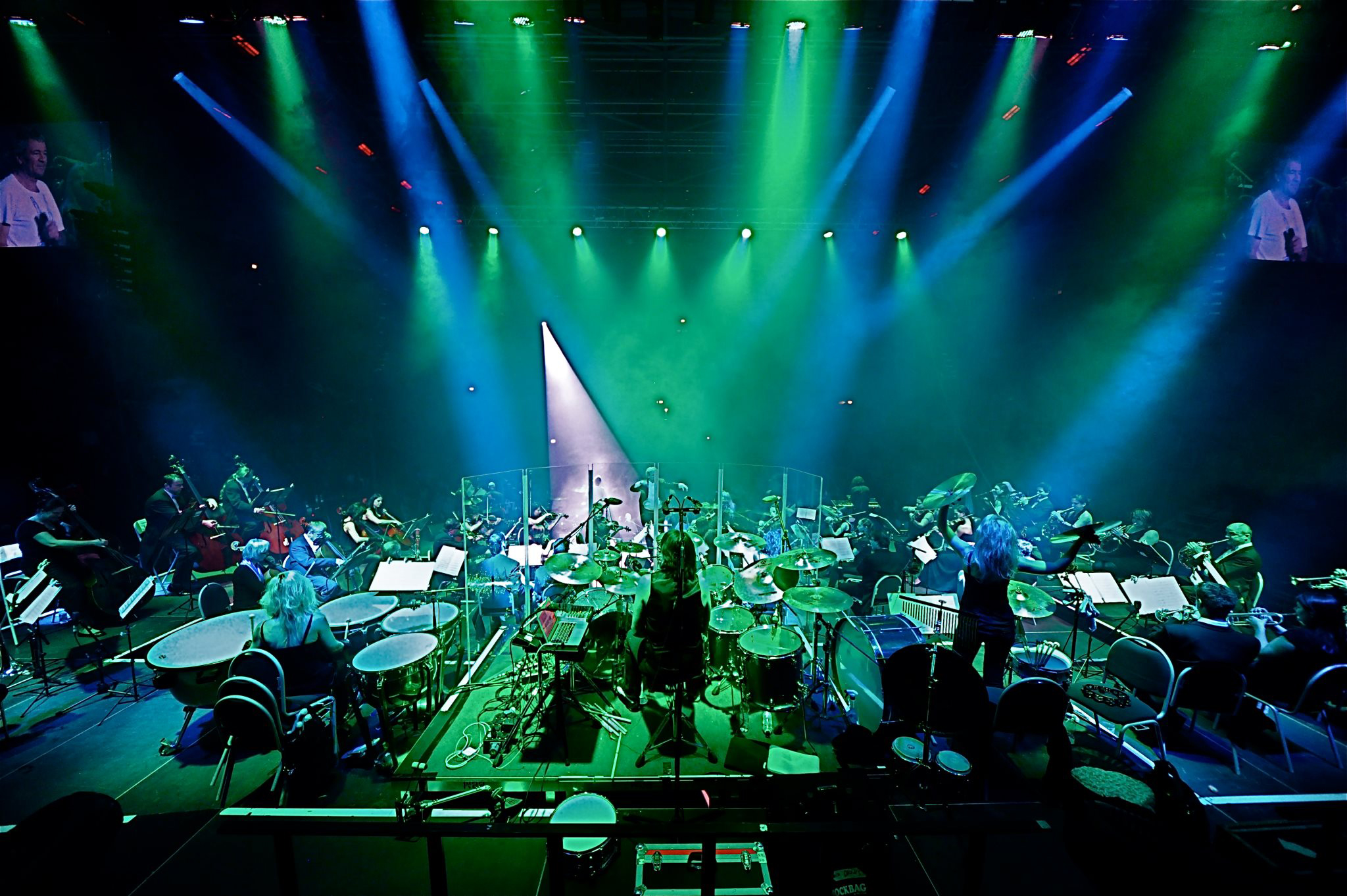 Rock meets Classic, Tour 2012